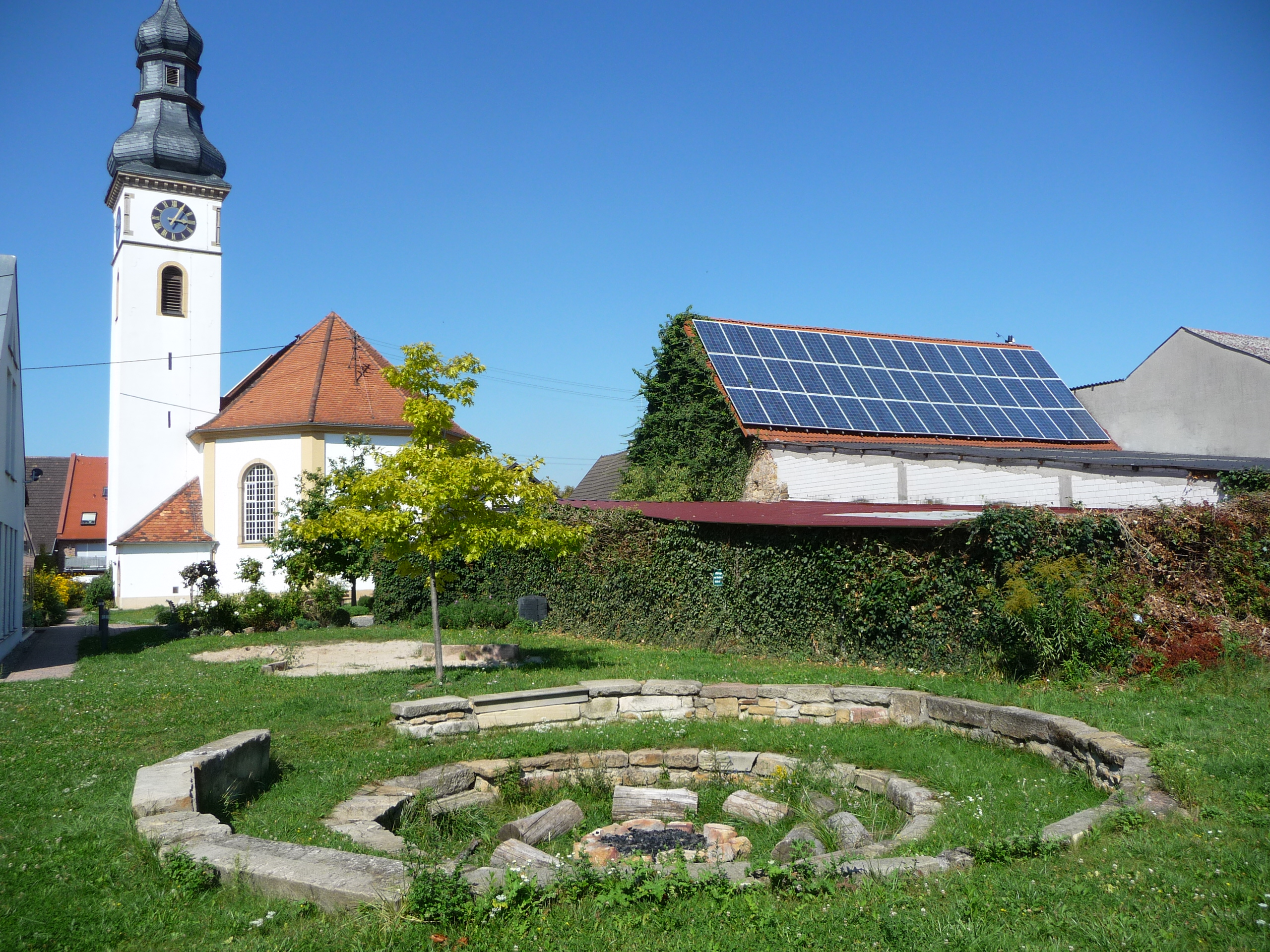 Gönnheim